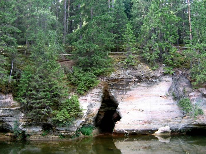 Taevaskoja, Põlvamaa, Estonia